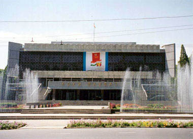 Palace of Unity, (Vahdat Palace, Tajik: Кохи Ваҳдат/Kokhi Vahdat/کاخ وحدت). 107, Rudaki Avenue, Dushanbe, Tajikistan. (Coords: 38.59, 68.7858). It is the headquarters of the ruling People's Democratic Party and is also used to host international conferences.